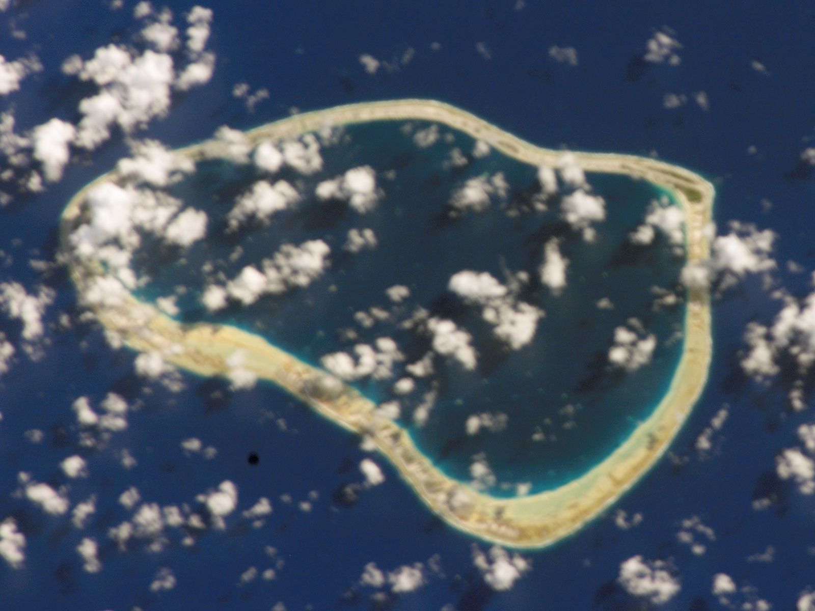 NASA astronaut image of Nengonengo Atoll (Tuamotu Archipelago, French Polynesia) in the Pacific Ocean